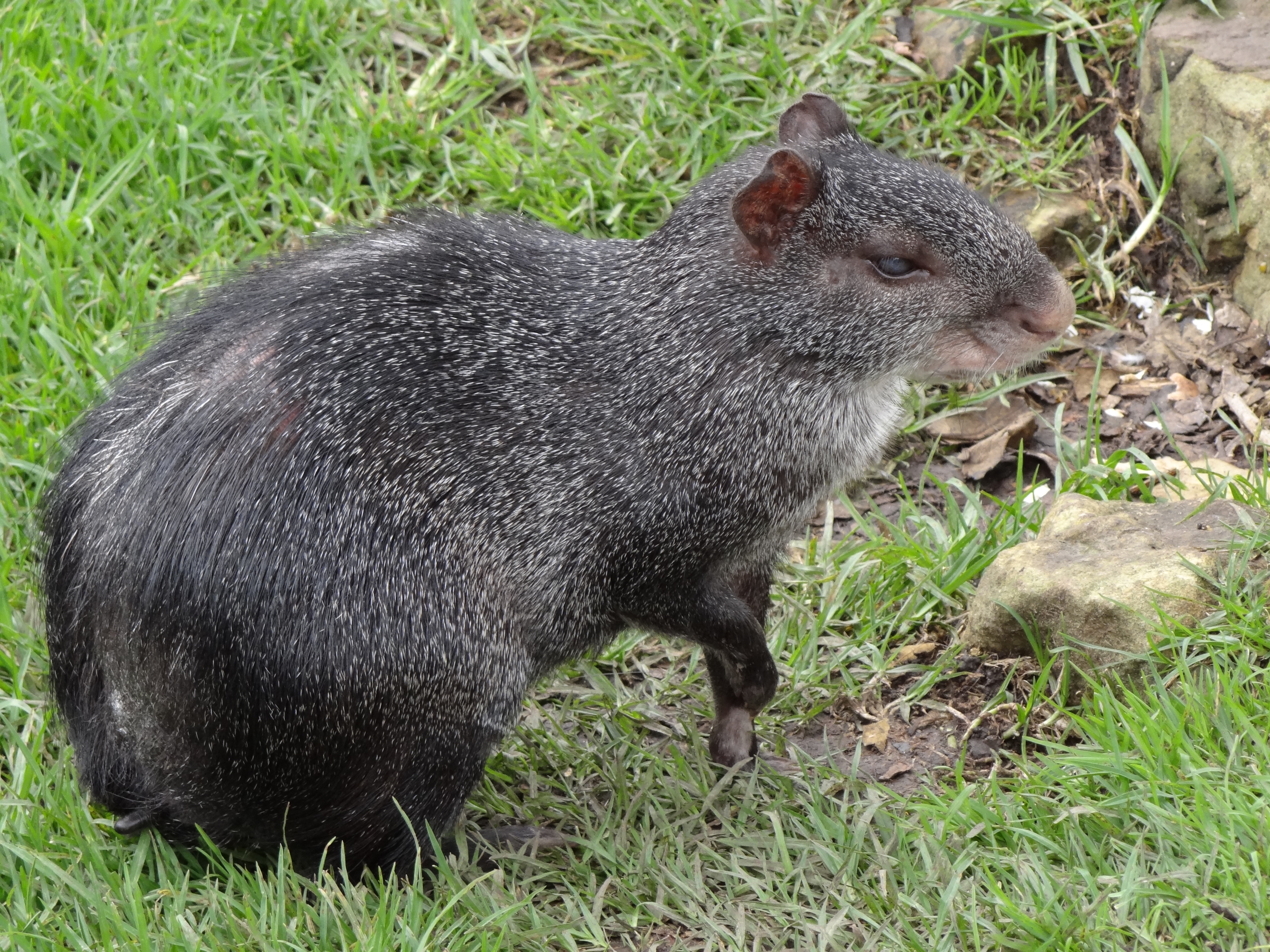 Dasyprocta fuliginosa body